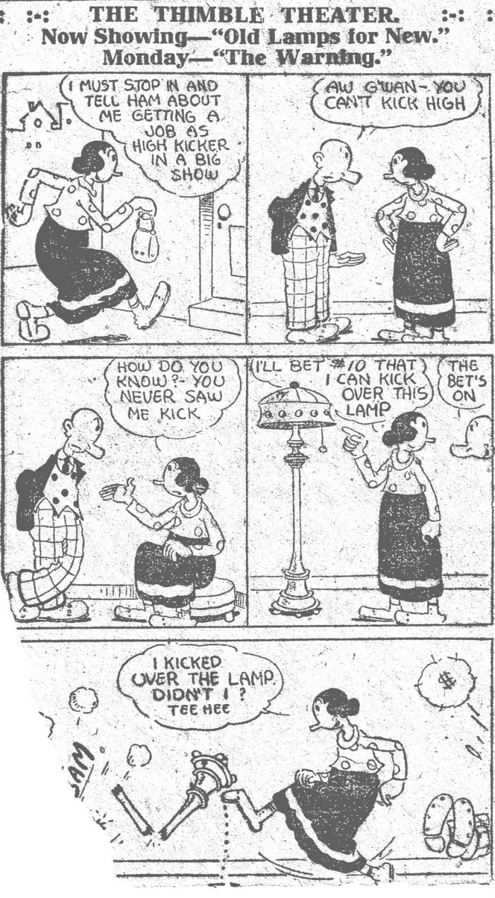 E.C. Segar's The Thimble Theater, "Old lamp for new", published in Pittsburgh Press on the 20th november of 1920.